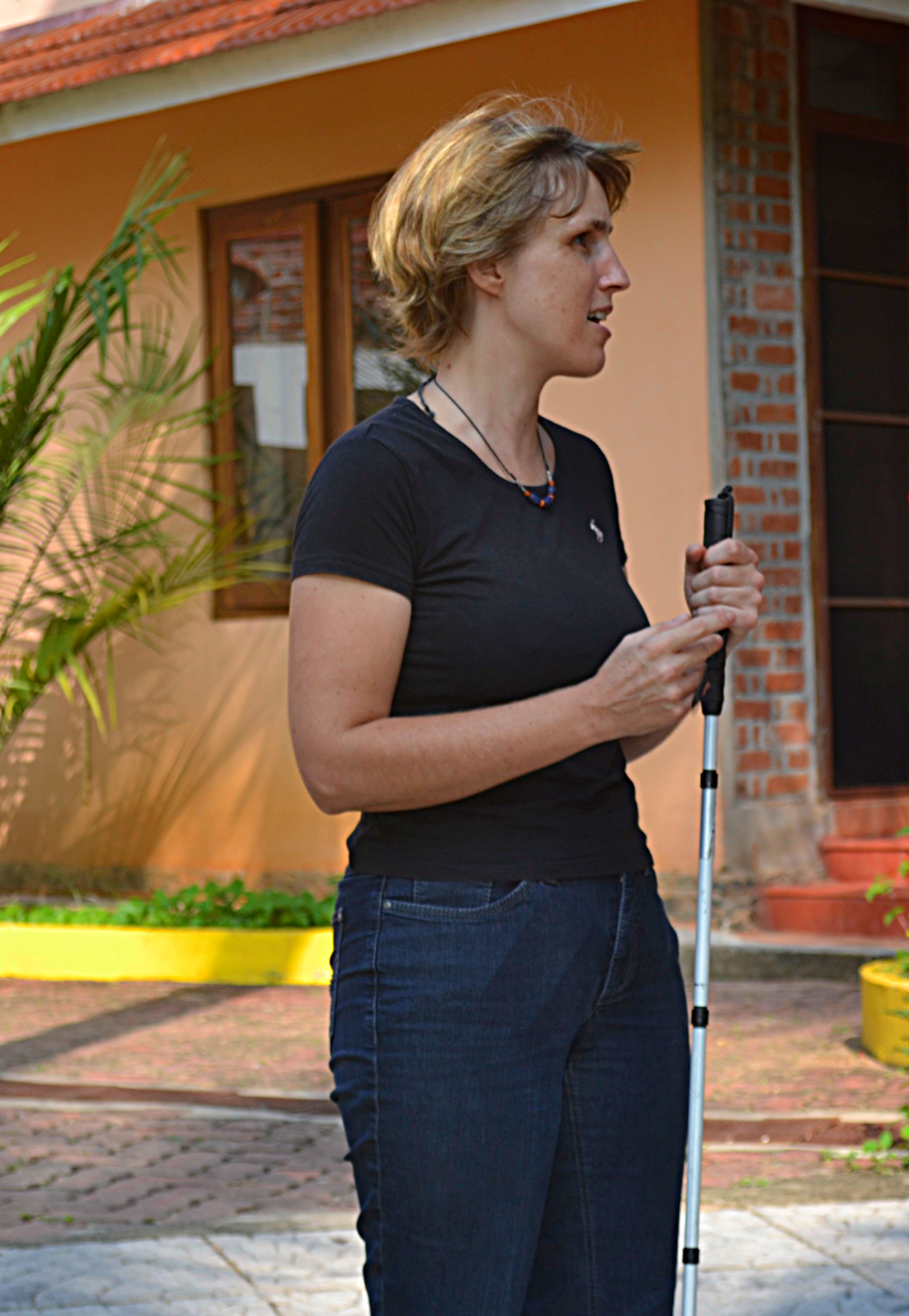 Sabriye Tenberken, a co-founder of Braille without borders at the campus of kanthari international (2013)